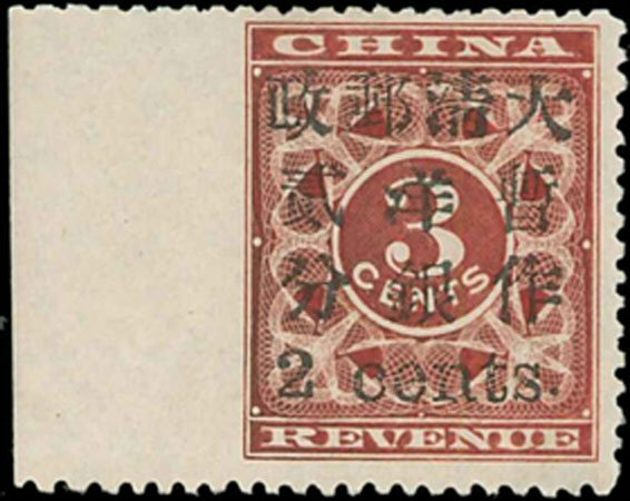 red 26